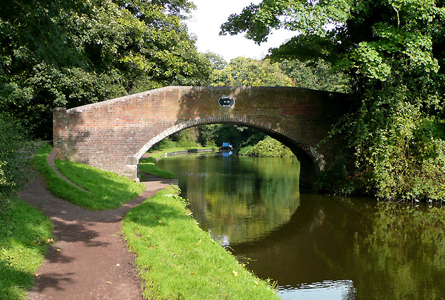 Stourton Bridge No 33, Staffordshire and Worcestershire Canal Beyond the bridge is Stourton Junction. Turn right to Stourbridge, Netherton Tunnel and Birmingham; go straight on for Wolverhampton, and the Potteries and the north (via the Trent and Mersey canal).